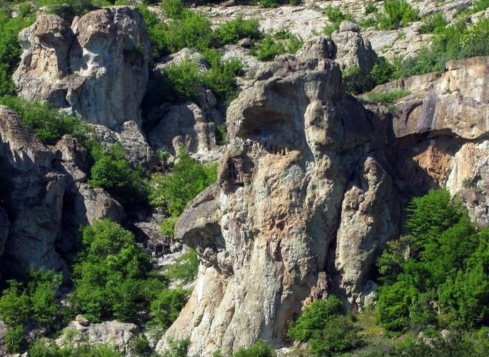 Human face Dazhdovnica rock sanctuary BG